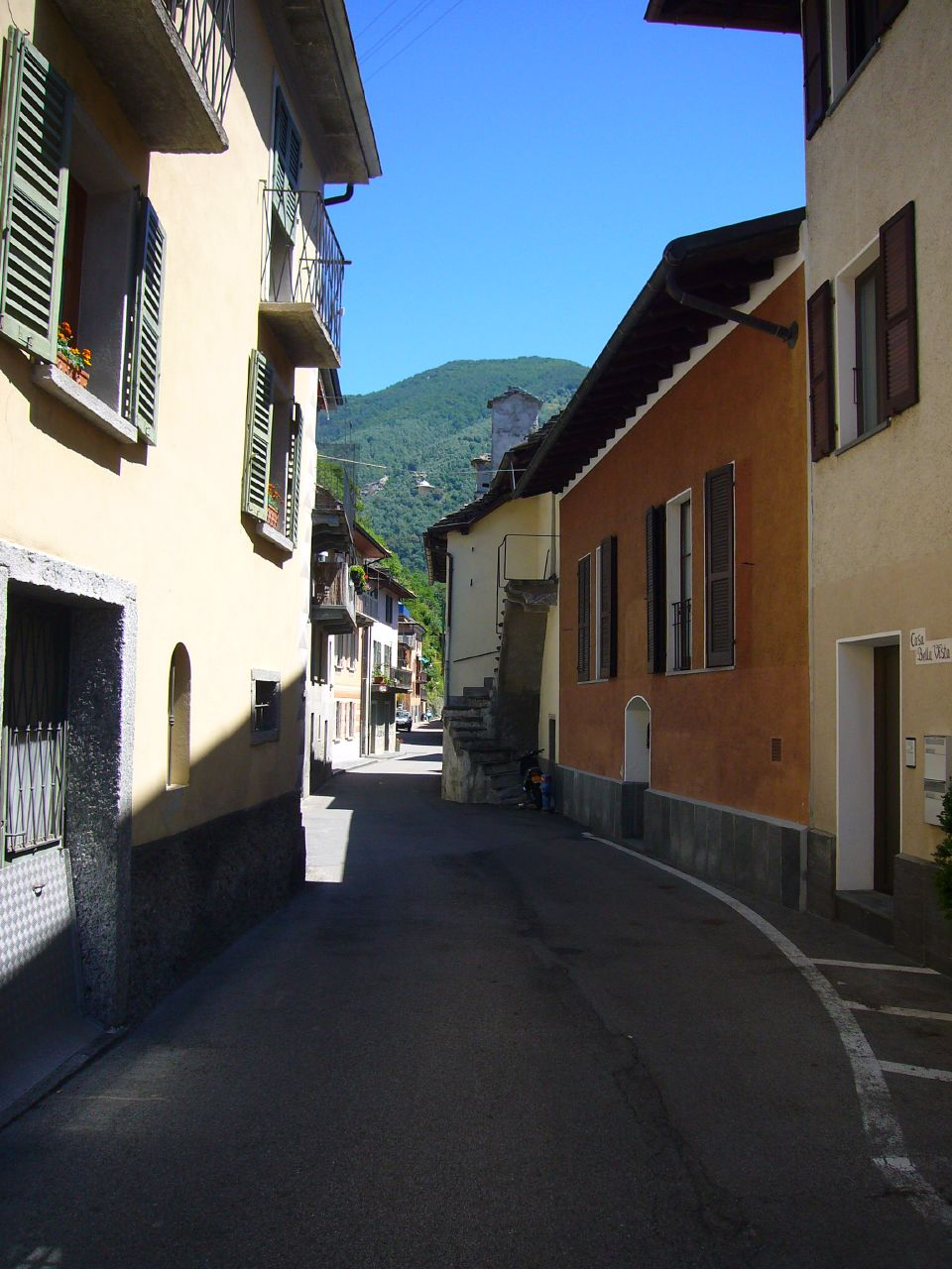 Houses and street in the village of Loco in Isorno, Ticino, Switzerland